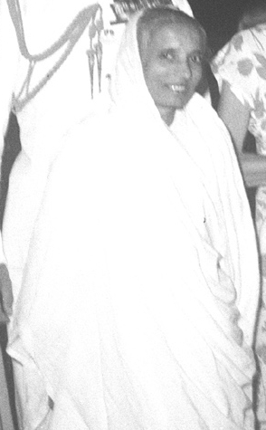 Maniben in October 1947 at a reception at the then Chinese Embassy in New Delhi on the occasion of Double Ten Day.